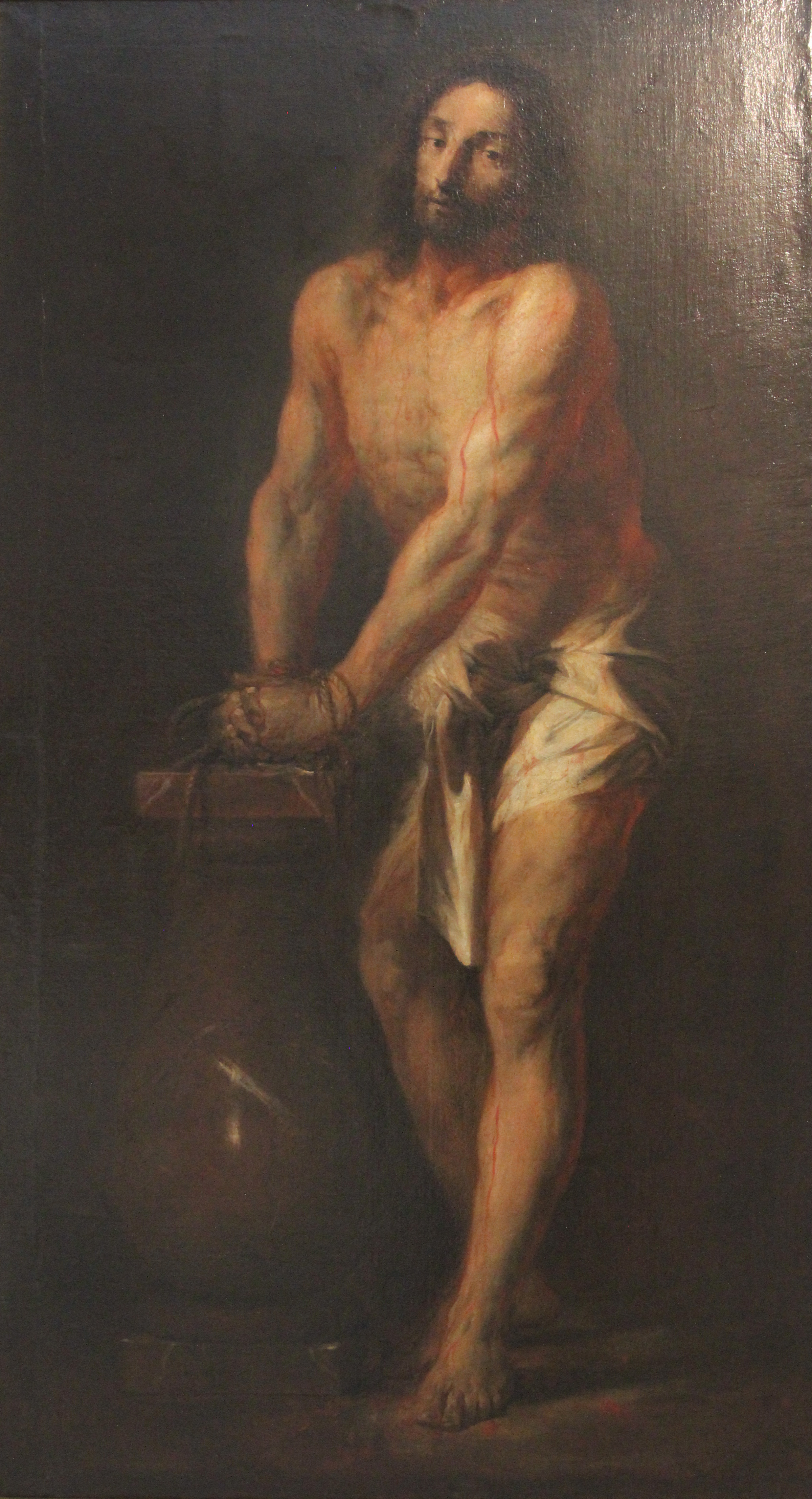 Michael Willman Christ by the Column (ca 1701) from National Museum in Wroclaw (originally in Cistercian monastery, Lubiąż Abbey).